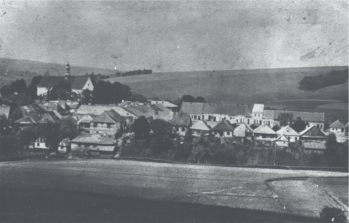 Wielopole (Skrzyńskie) around year 1910, Galicia, Austria-Hungary